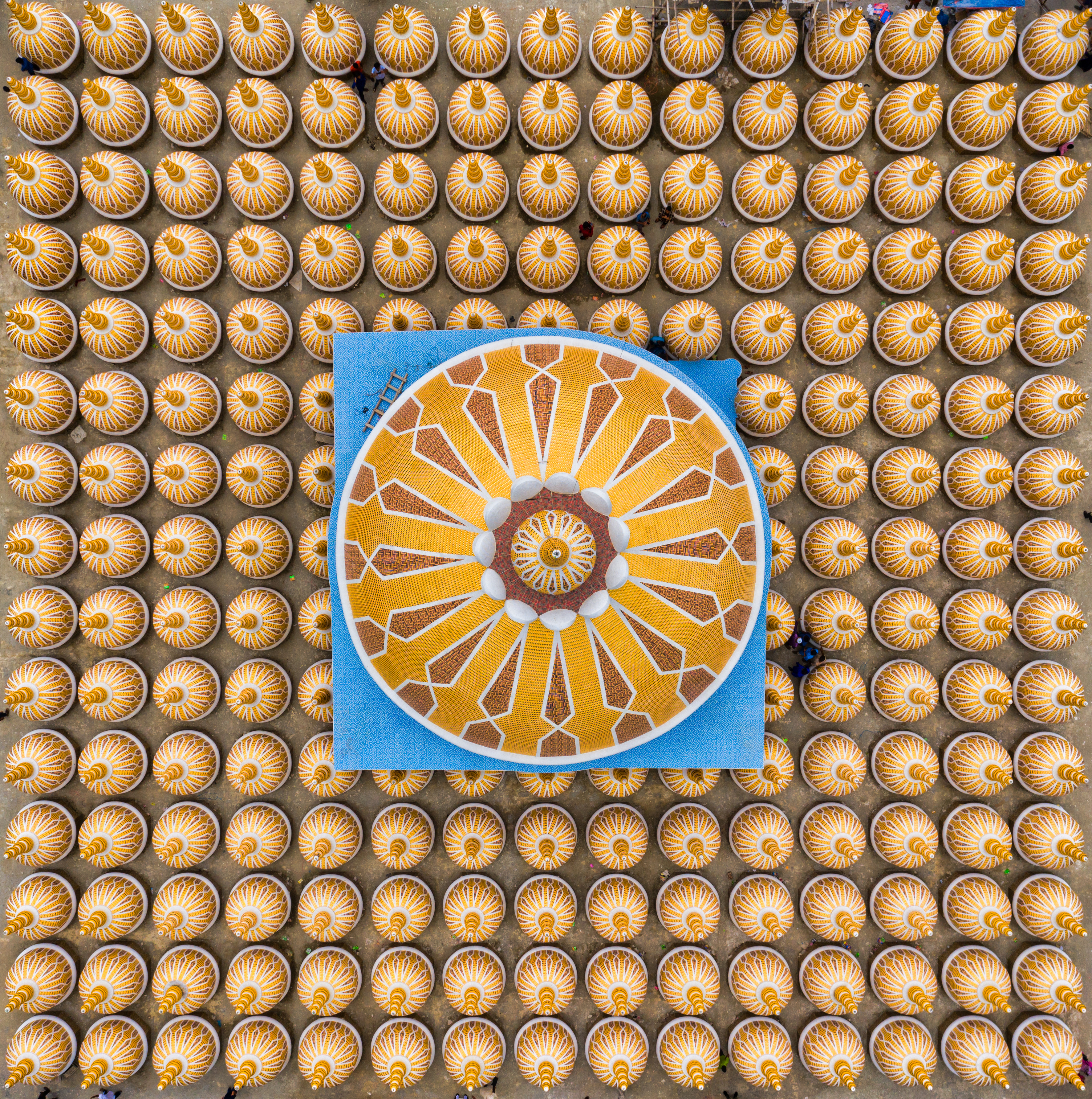 Top view of 201 Dome Mosque, Tangail District, Bangladesh.